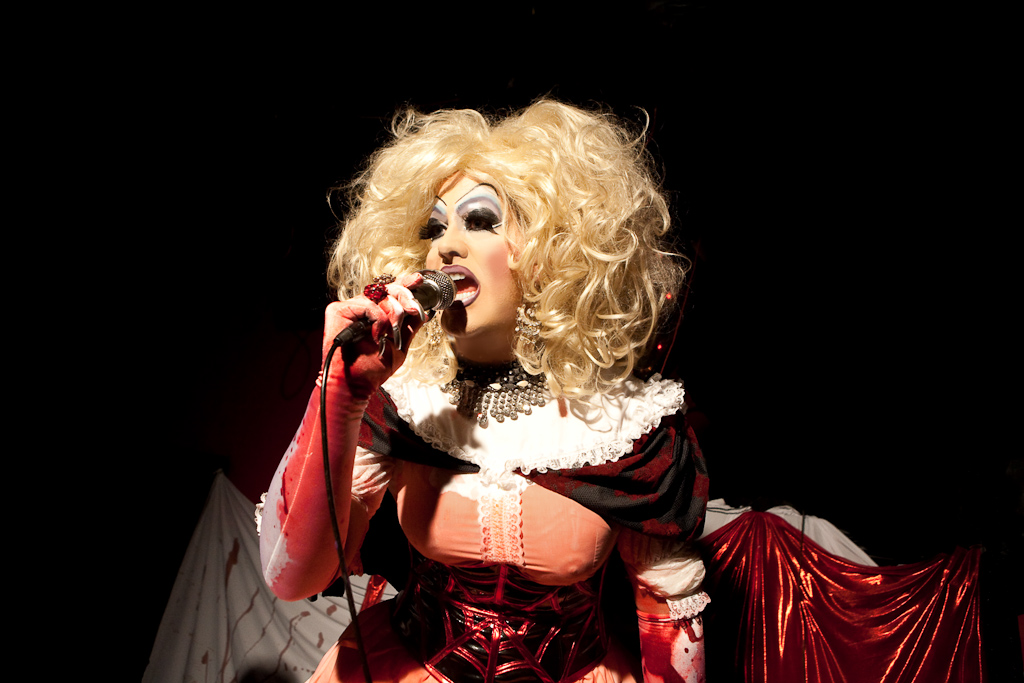 Peaches Christ, a San Francisco, CA, US, -based drag performer, emcee, filmmaker and actress performs at the Trannyshack/Midnight Mass Halloween party at Cat Club in her hometown in 2009.